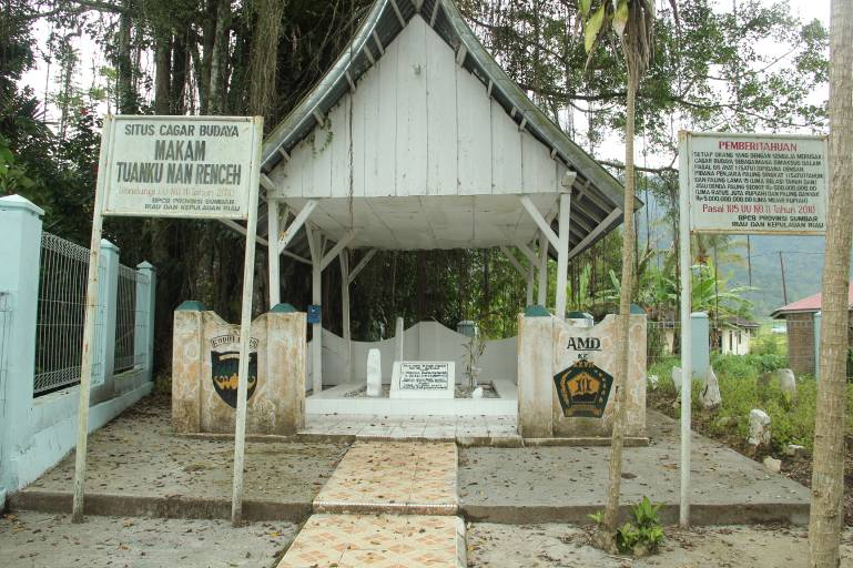 Makam Tuanku Nan Renceh, one of the fighters in the Padri War held at Kamang Mudiak, Kamang Magek, Agam Regency, West Sumatra. In this tomb there are two tombs, namely the tomb of Tuanku Nan Renceh and his parents named Jirahmah.